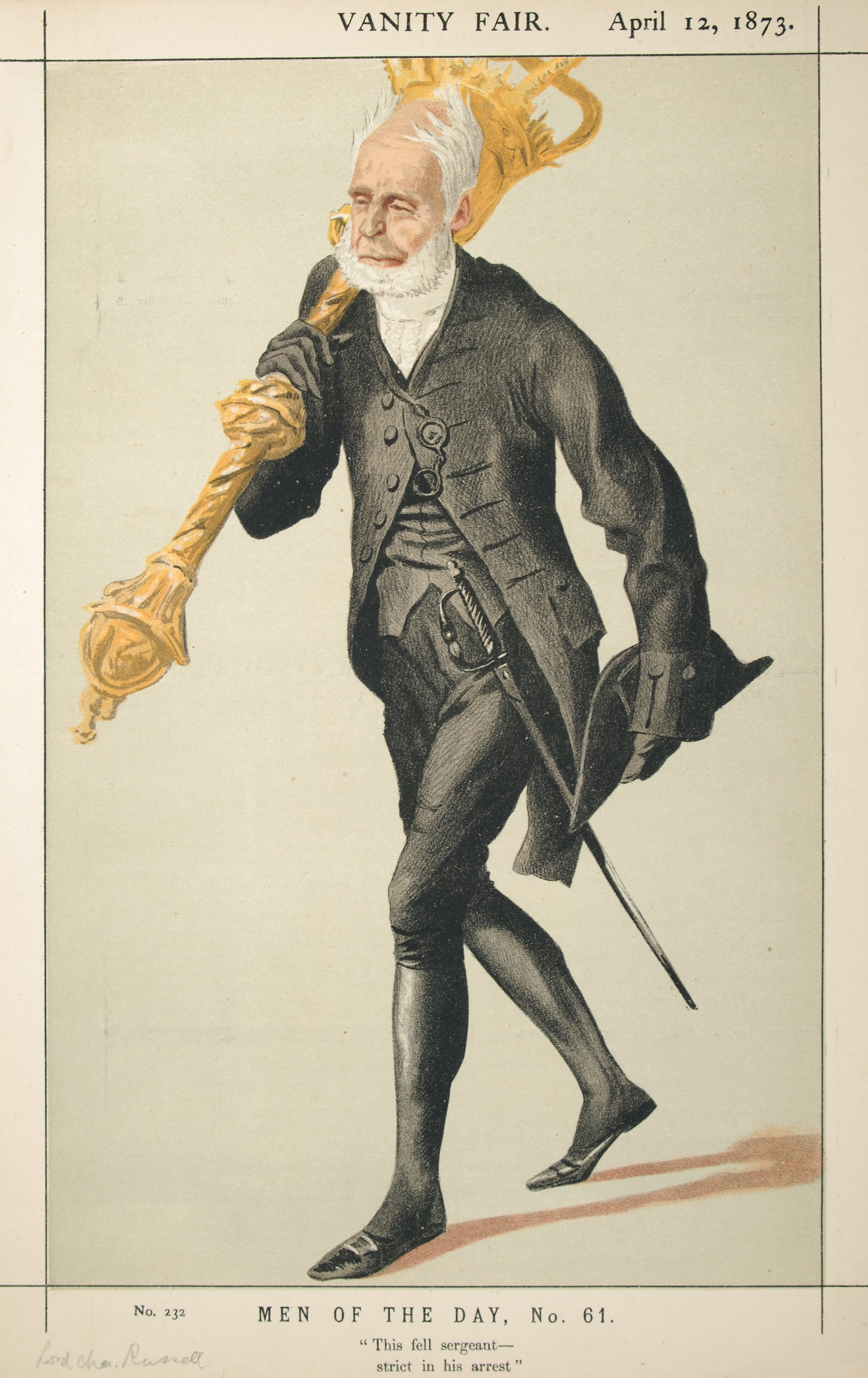 Men of the Day No.61: Caricature of Lt-Col Lord Charles James Fox Russell. Caption reads: "'This fell sergeant - strict in this arrest'"